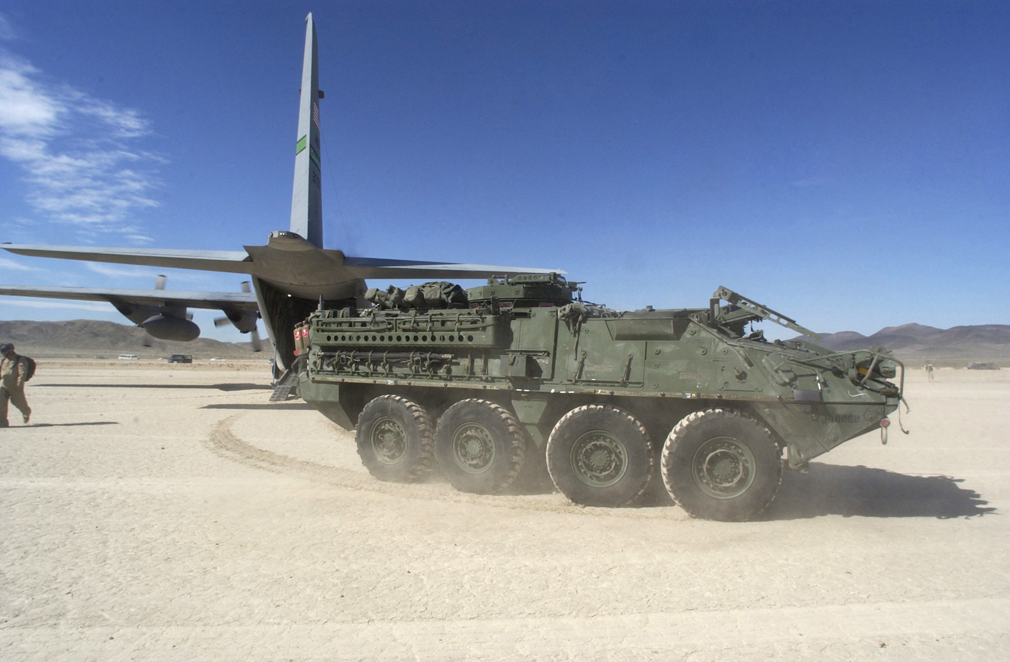 Fort Irwin, Calif. (Mar. 24, 2003) -- A Stryker interim armored vehicle speeds away after being offloaded from an Air Force C130 Hercules aircraft during an early-entry training mission, marking the beginning of Exercise Arrowhead Lightning I. The mission marked the first time all eight Stryker variants were flown in a tactical operation aboard models E and J of the C130 aircraft. U.S. Army photo courtesy of Staff Sgt. Rhonda M. Lawson. (RELEASED)